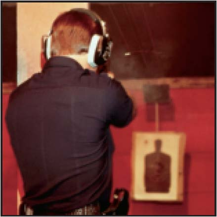 A picture of a FBI officer at a shooting range